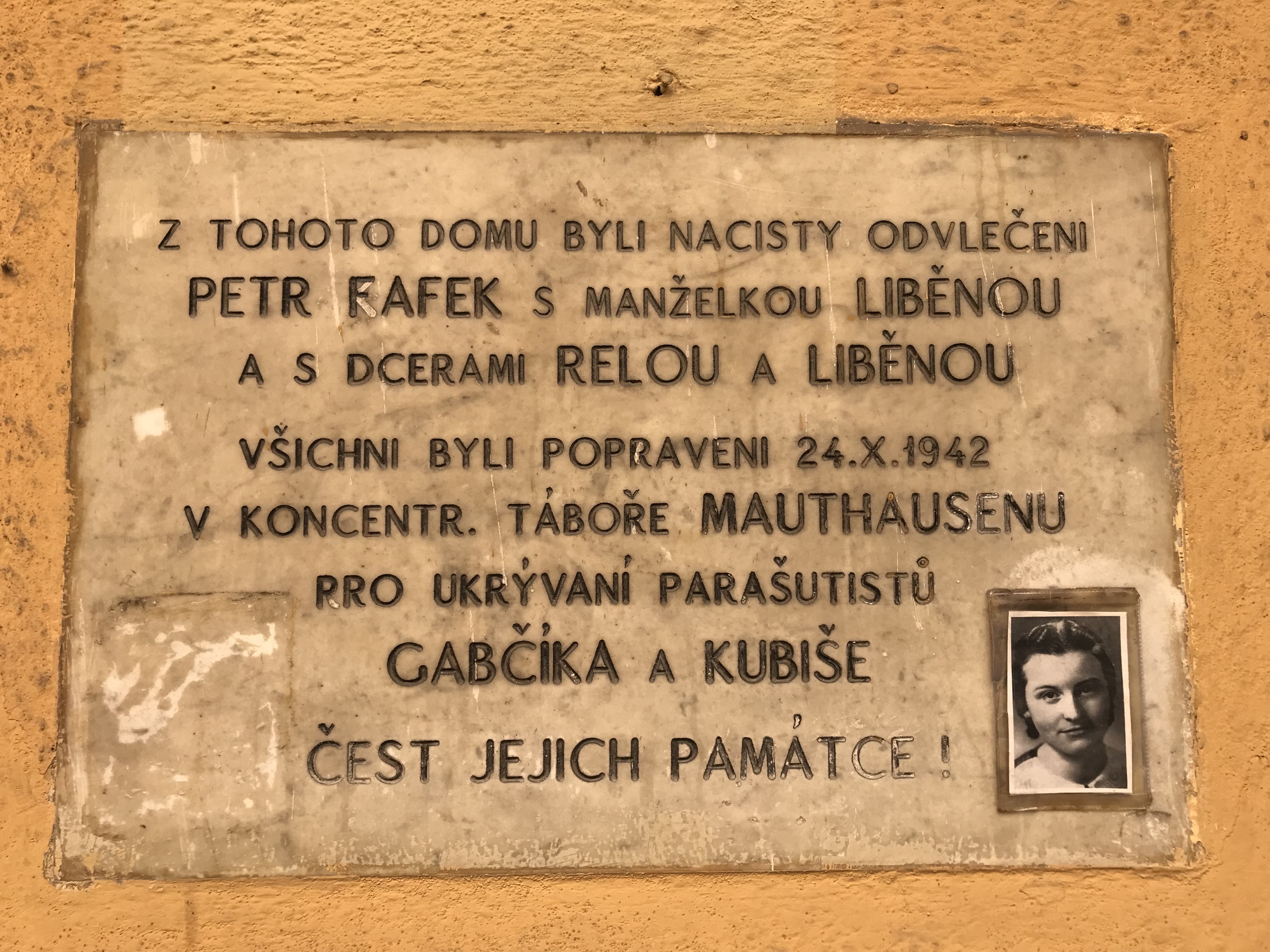 plaque of Petr Fafek in Kolínská street, Prague.